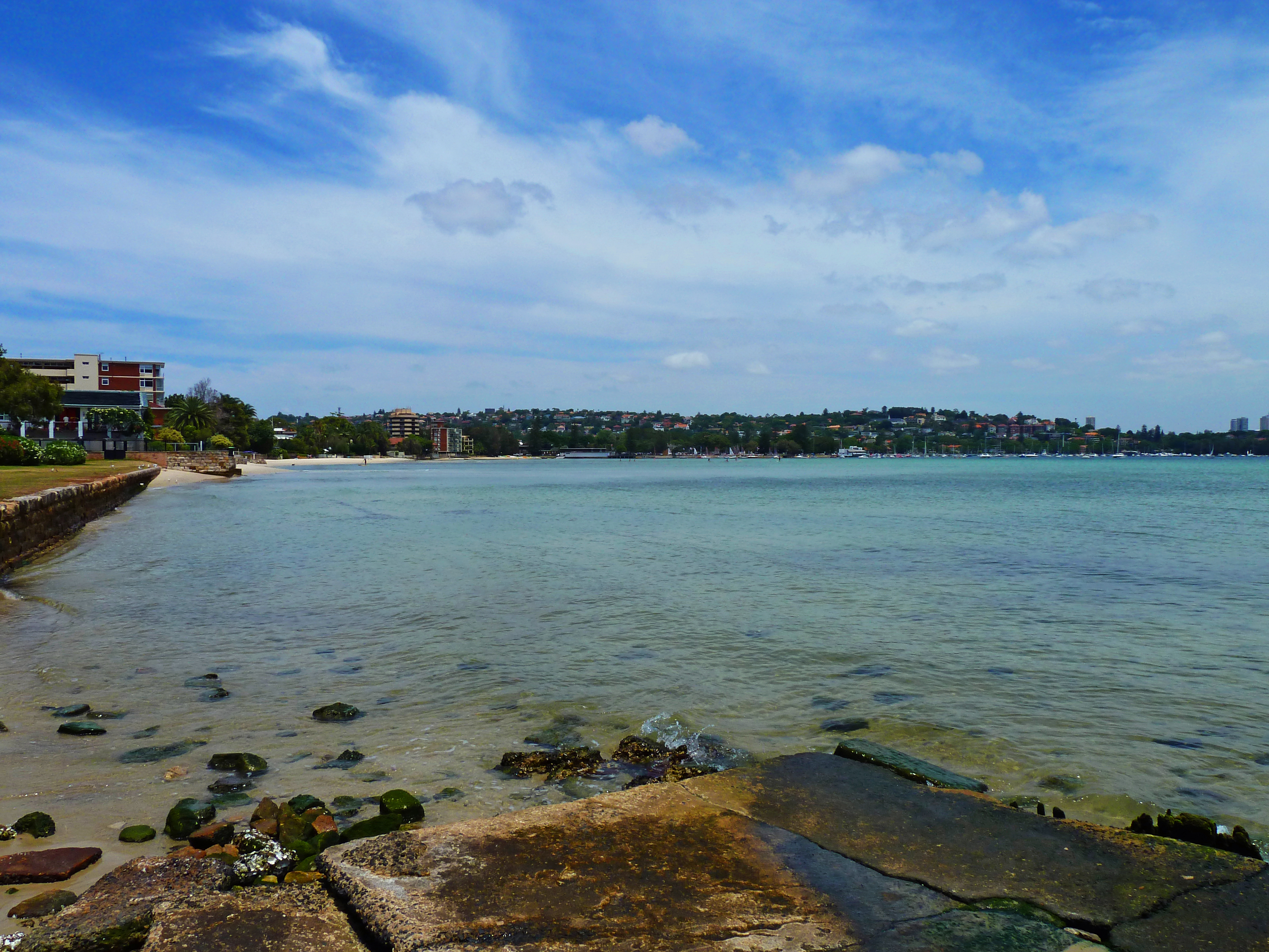 Sydney Harbour, from Dumaresq Road, Rose Bay, New South Wales, Australia.